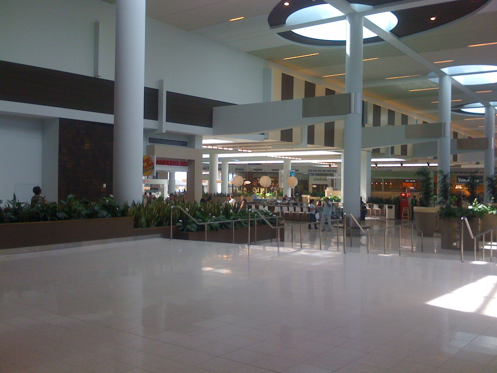 Food court at Westfield Plaza Bonita, in San Diego, CA